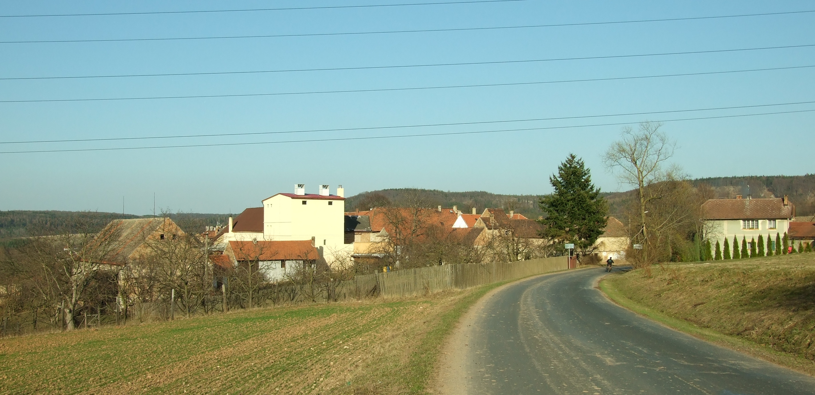 A road from Smilovice to Kozojedy - Rakovník District. Central Bohemian Region, CZ